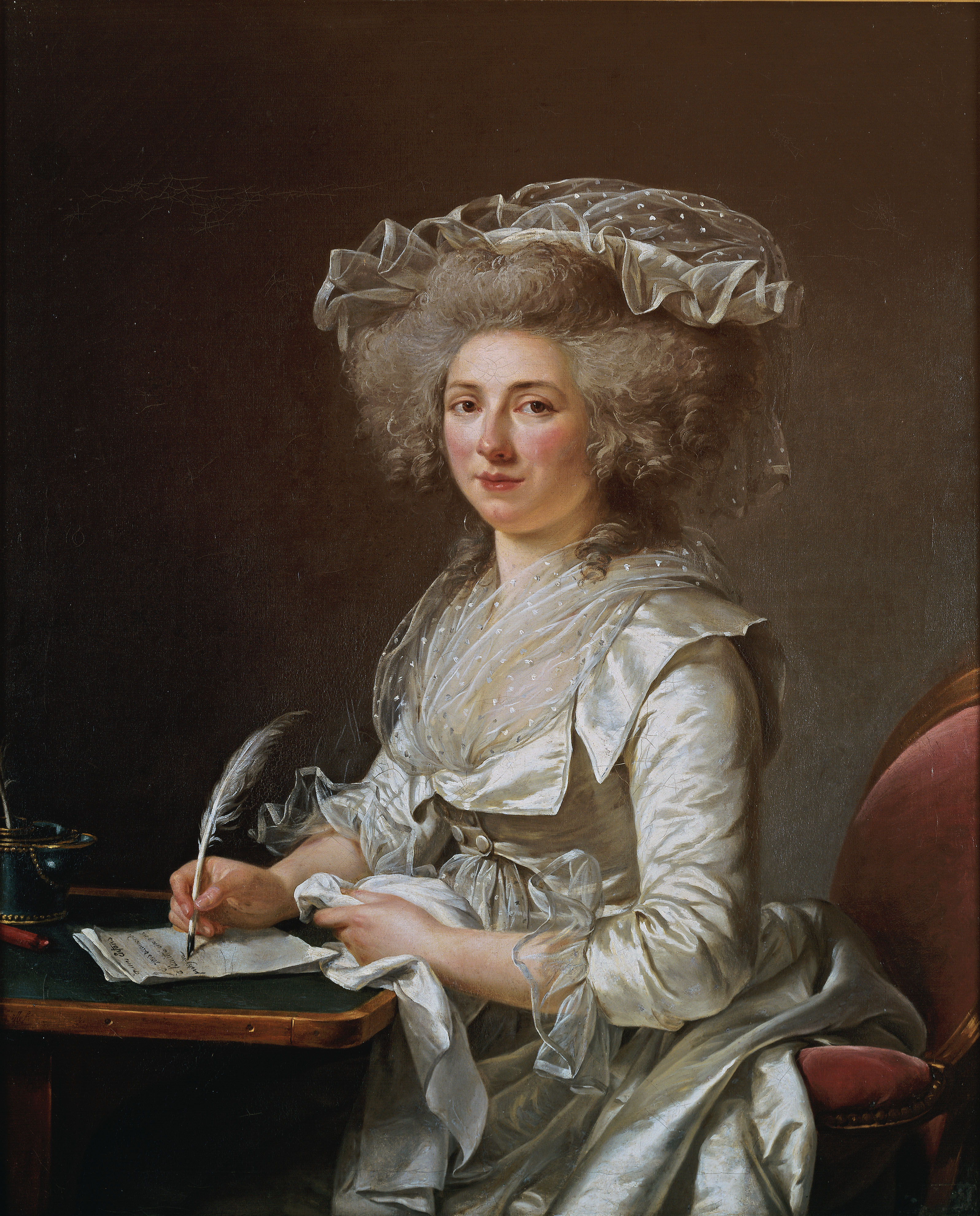 Portrait of a Woman (formerly thought[1][2][3] to be Madame Roland)